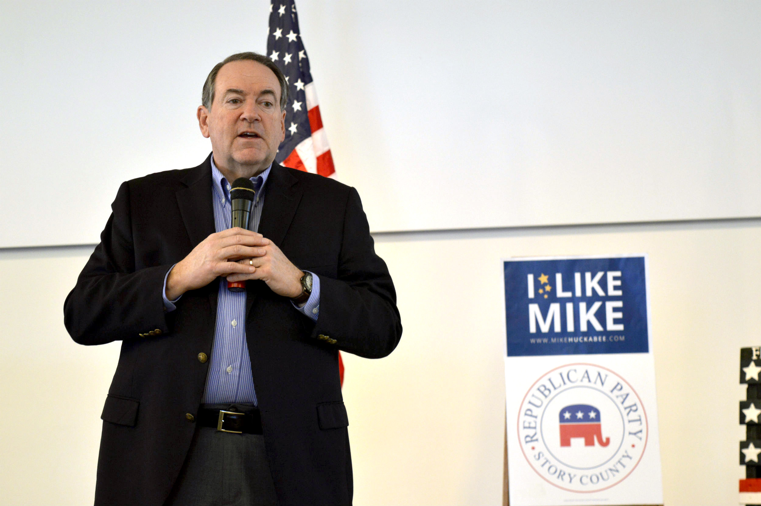 Former Arkansas Gov. Mike Huckabee, 2016 Republican presidential candidate, speaks at Oakwood Road Church in Ames, Iowa on Monday, Jan. 4, 2016. Mandatory credit to Alex Hanson if used elsewhere.